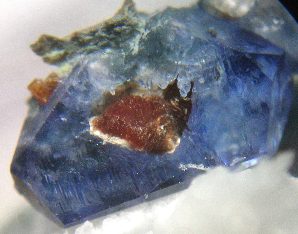 Delindeite, Benitoite, Joaquinite-(Ce) Dimensions: 1.6 cm x 1.2 cm x 1.2 cm Field of View: 1.9 cm Largest Crystal Size: 1.6 cm Weight: 0.9 g Locality: California State Gem Mine (Dallas Gem Mine; Benitoite Mine; Benitoite Gem Mine; Gem Mine), Dallas Gem Mine area, San Benito River headwaters area, New Idria District, Diablo Range, San Benito Co., California, USA Original description: This is a unique specimen of delindeite from the Benitoite Gem Mine. The stacked plate-like crystals of red delindeite was deposited first and acted almost as a repulsive agent while a benitoite crystal grew around it. The delindeite group is approximately 2.5 mm across. There is another group deeper within the benitoite crystal. A Joaquinite-Ce crystal is visible in the back ground. It was found from mine run material purchased from Bryan Lees in 2010 and was part of the material mined by Collector's Edge in 2003. Identification was performed by Mike Rumsey at the British Museum of Natural History in London.